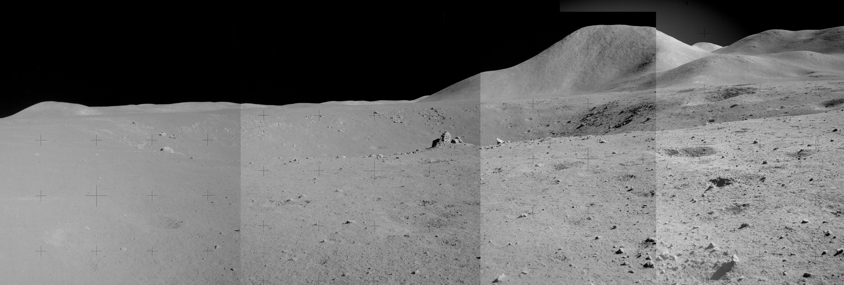 Dune crater, north of Mons Hadley Delta, Hadley-Apennine, the moon. Mosaic of four images taken at Geology Station 4 on the Apollo 15 mission. Facing approximately north at center, with Mons Hadley at right.